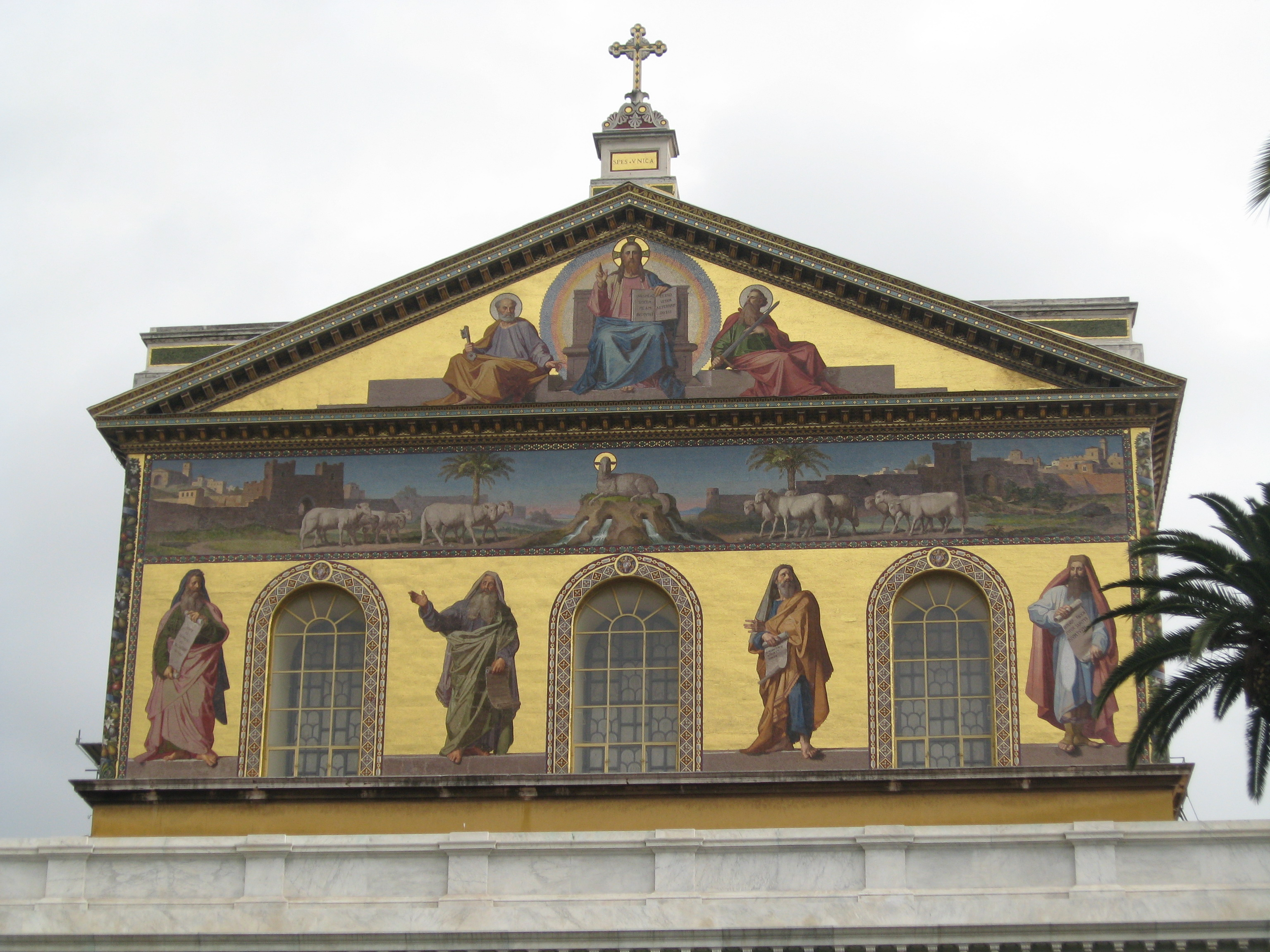 The big mosaic of the facade of Saint Paul outside the Walls, Rome.